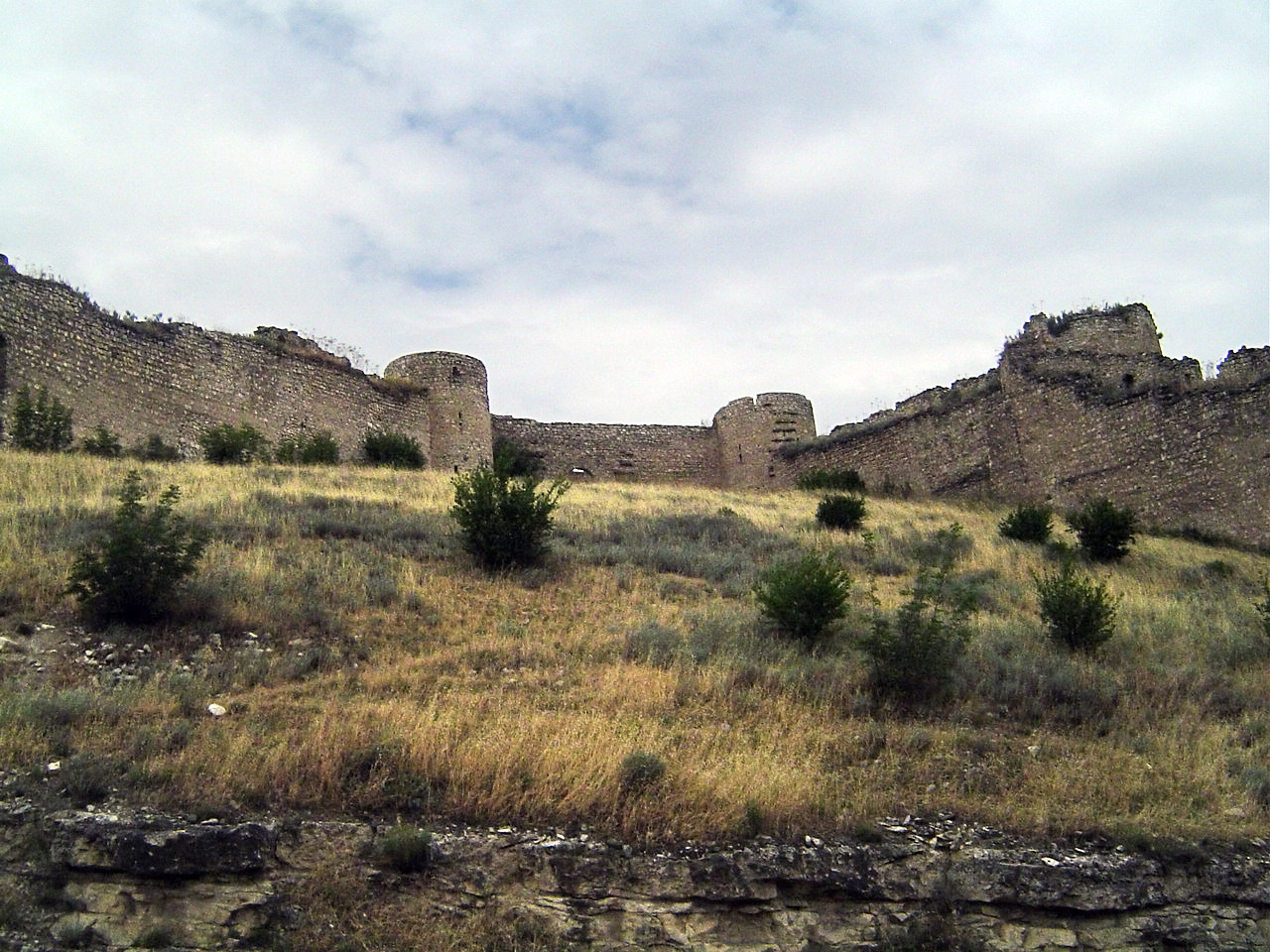 Remains of the Askeran fortress just outside of the city of Stepanakert, Nagorno-Karabakh.